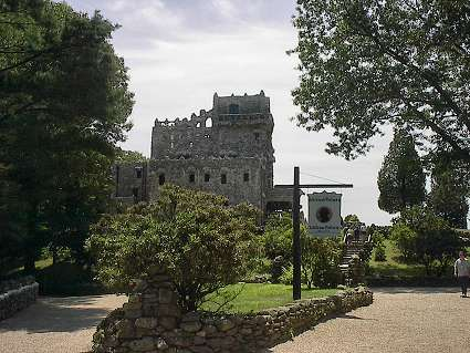 View of Gilette Castle in East Haddam, CT.